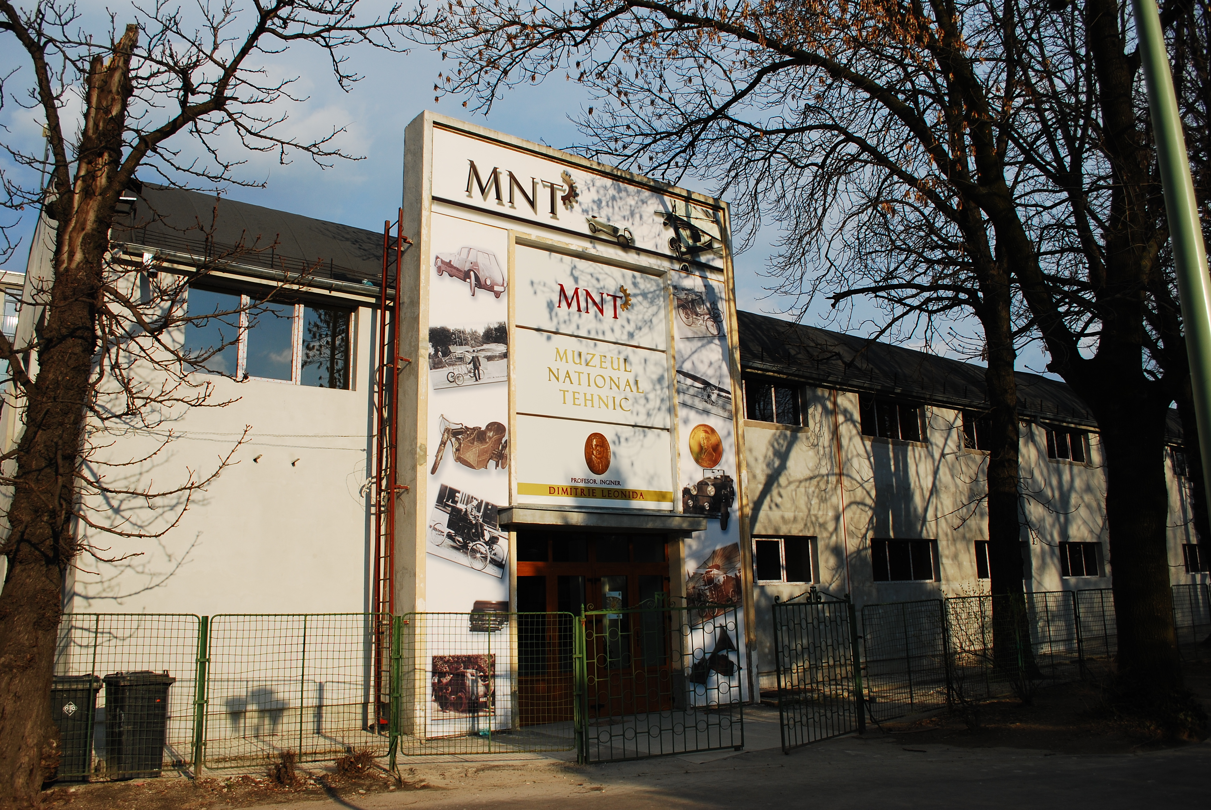 The Dimitrie Leonida National Technical Museum in Bucharest, Romania